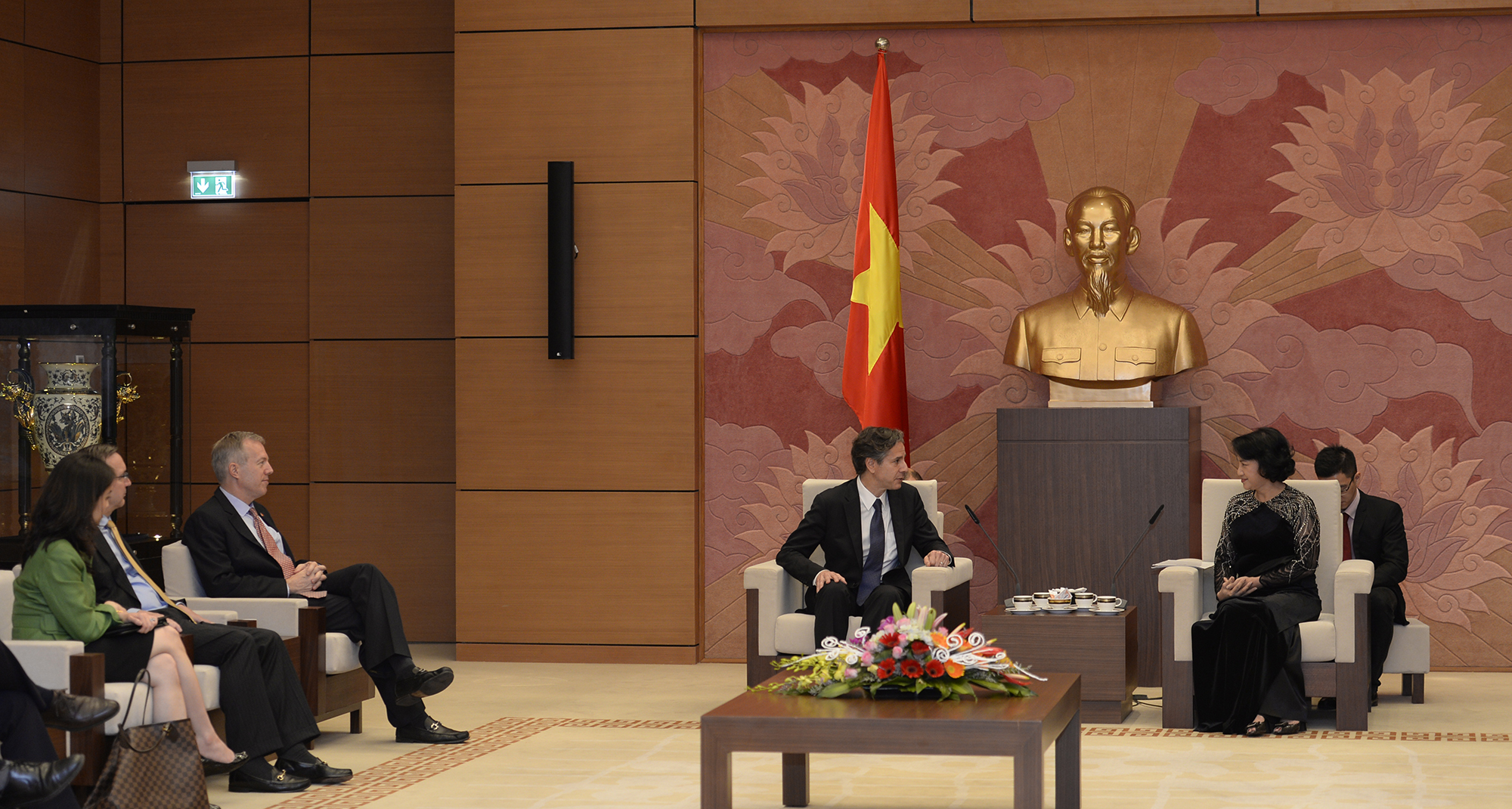 Deputy Secretary Antony Blinken meets with Vietnam National Assembly Vice Chairwoman Nguyen Thi Kim Ngan in Hanoi, Vietnam on May 18, 2015 in National Assembly House, Hanoi